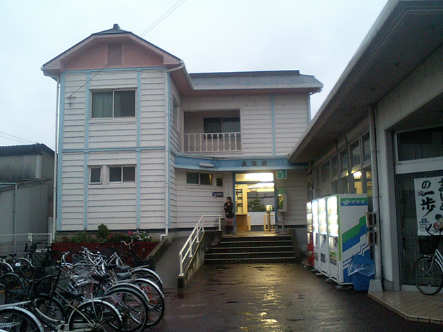 Kotoden Nagao station(Oct. 8th 2005)